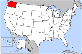 Public domain map courtesy of The General Libraries, The University of Texas at Austin, modified to highlight state boundaries.